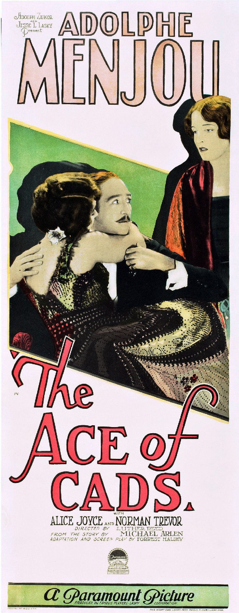 Poster for the 1926 film The Ace of Cads. There are no copyright marks. At bottom left is Country of origin USA. At bottom right is This poster leased from Famous Players Lasky Corp.